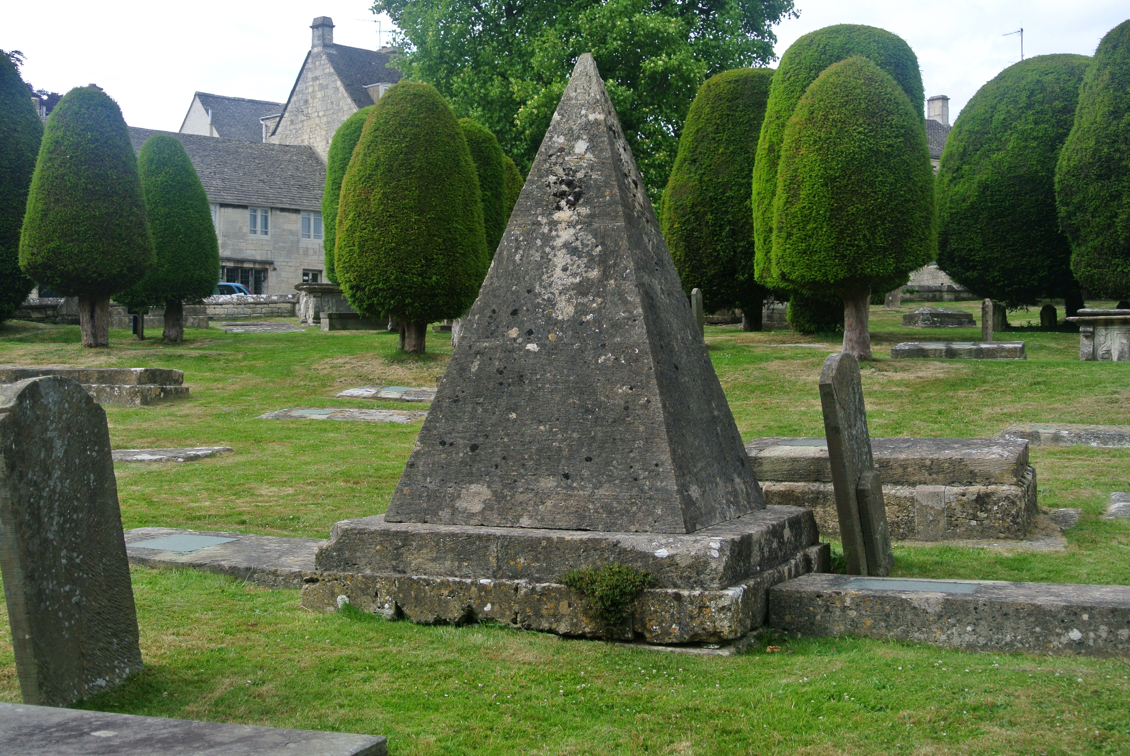 Pyramidal tomb of the stonemason John Bryan in Painswick, Gloucestershire.